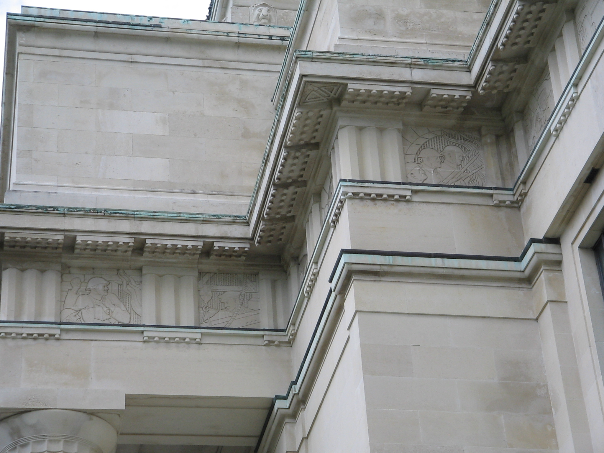 Part of the entablature on the facade of the Auckland War Memorial Museum, depicting war scenes on its frieze.